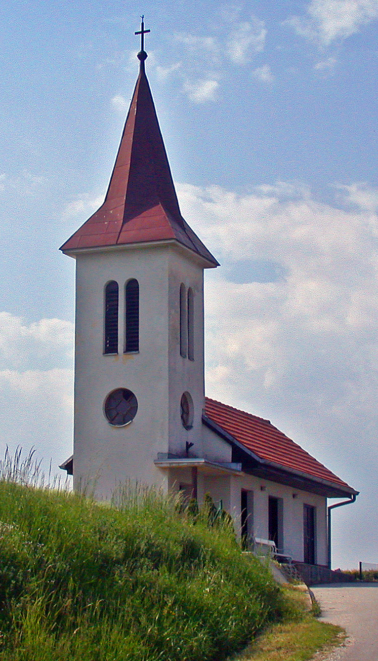 Chapel Suhi vrh Slovenia